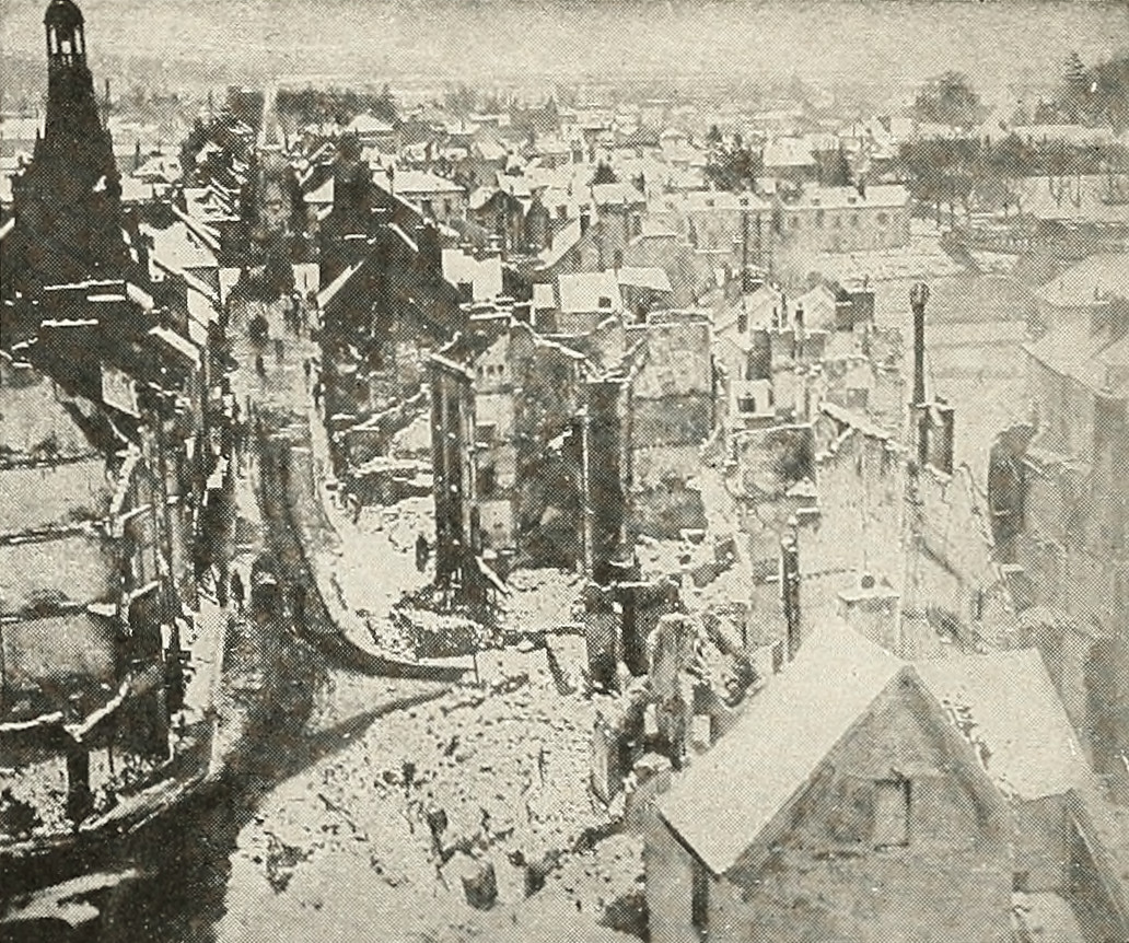 Destruction at Argonne, 1920.